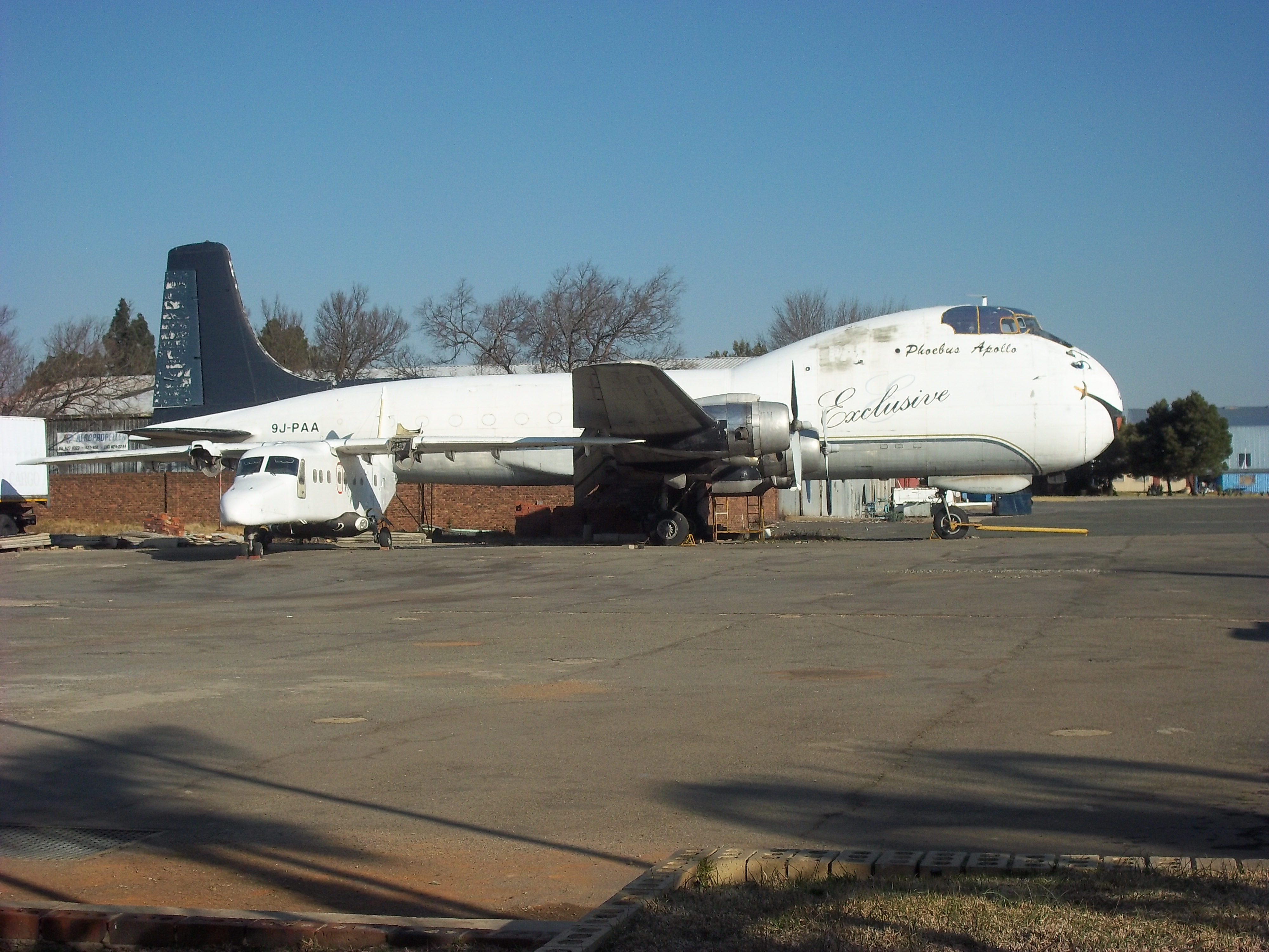 An ATL-98 Carvair at Phoebus Apollo Aviation, Rand Airport, South Africa. Only 21 were built.